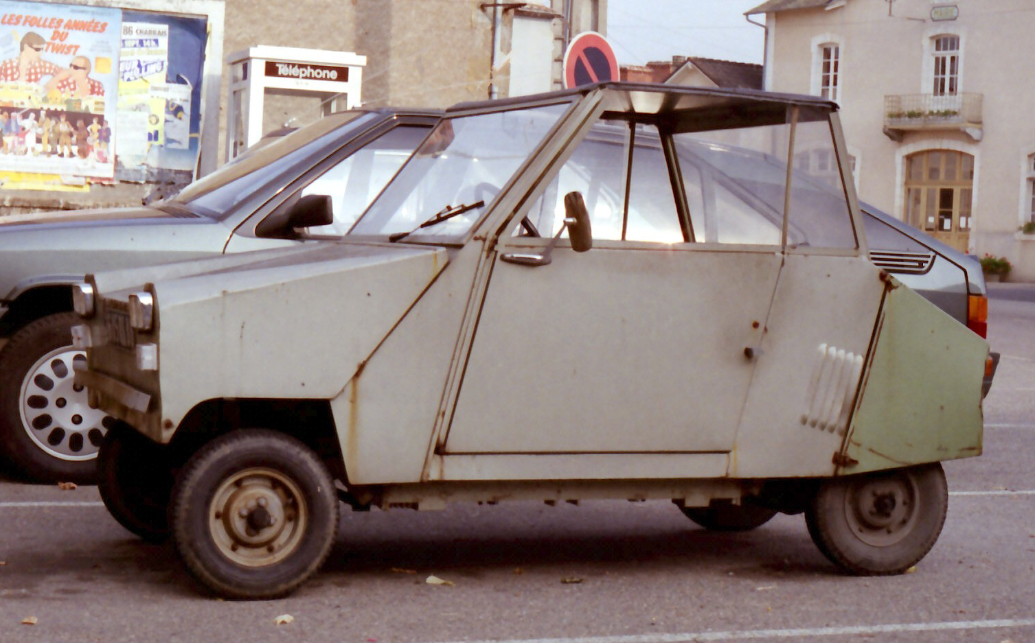 1980 KV Mini 1, photo taken in Availles (Vienne, France).